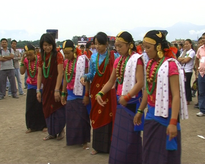 Kauda Dance performed by Magar people in Nepal